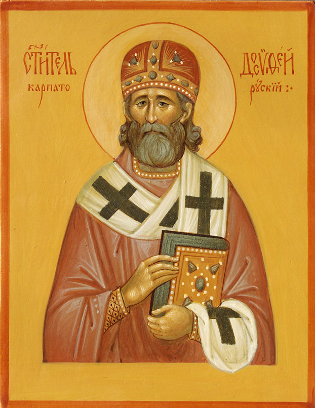 Icon. Metropolitan Dosifej Zagreb and Nis